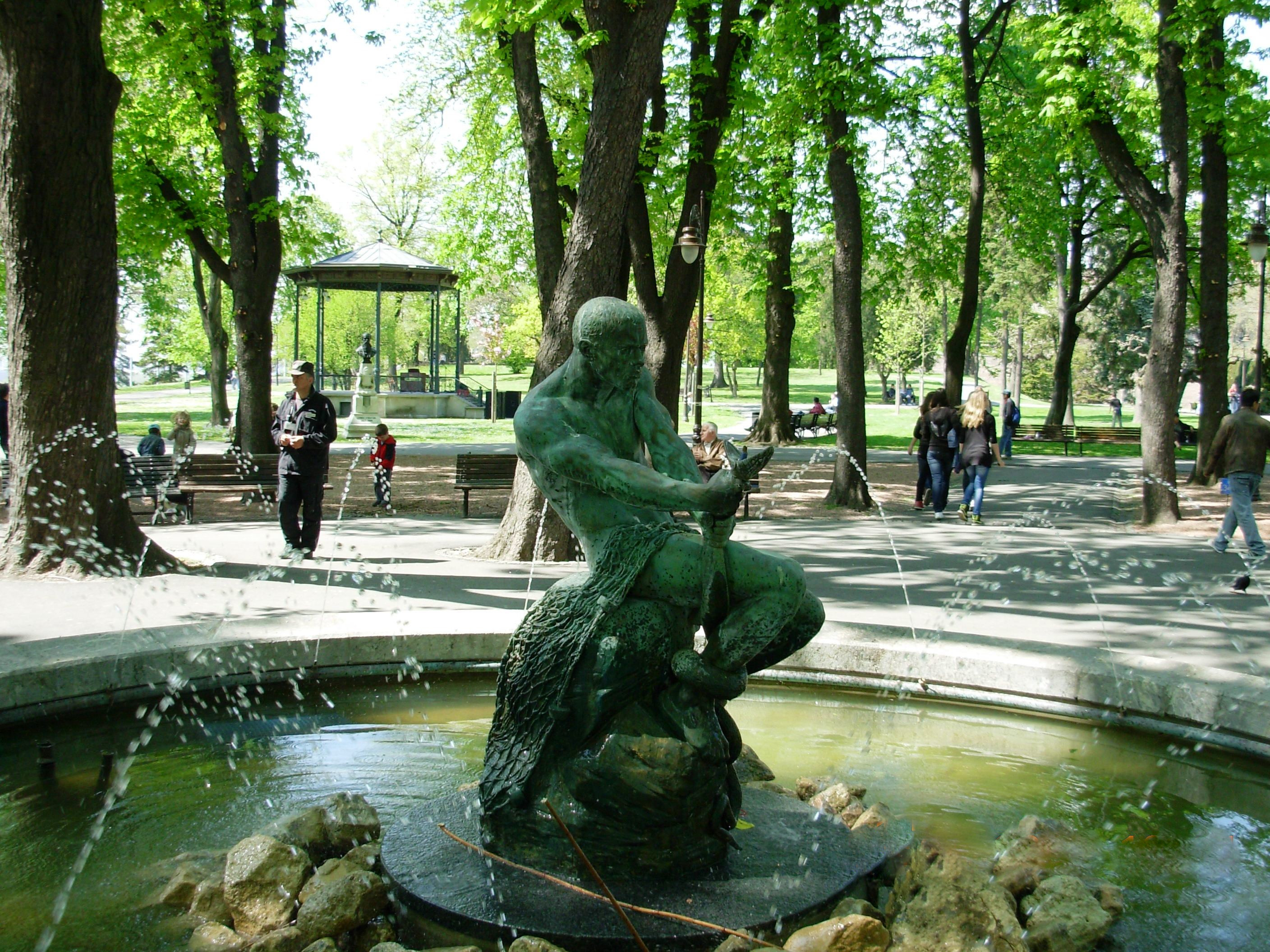 Fisherman fountain at Kalemegdan, Belgrade, by artist Simeon Roksandić.